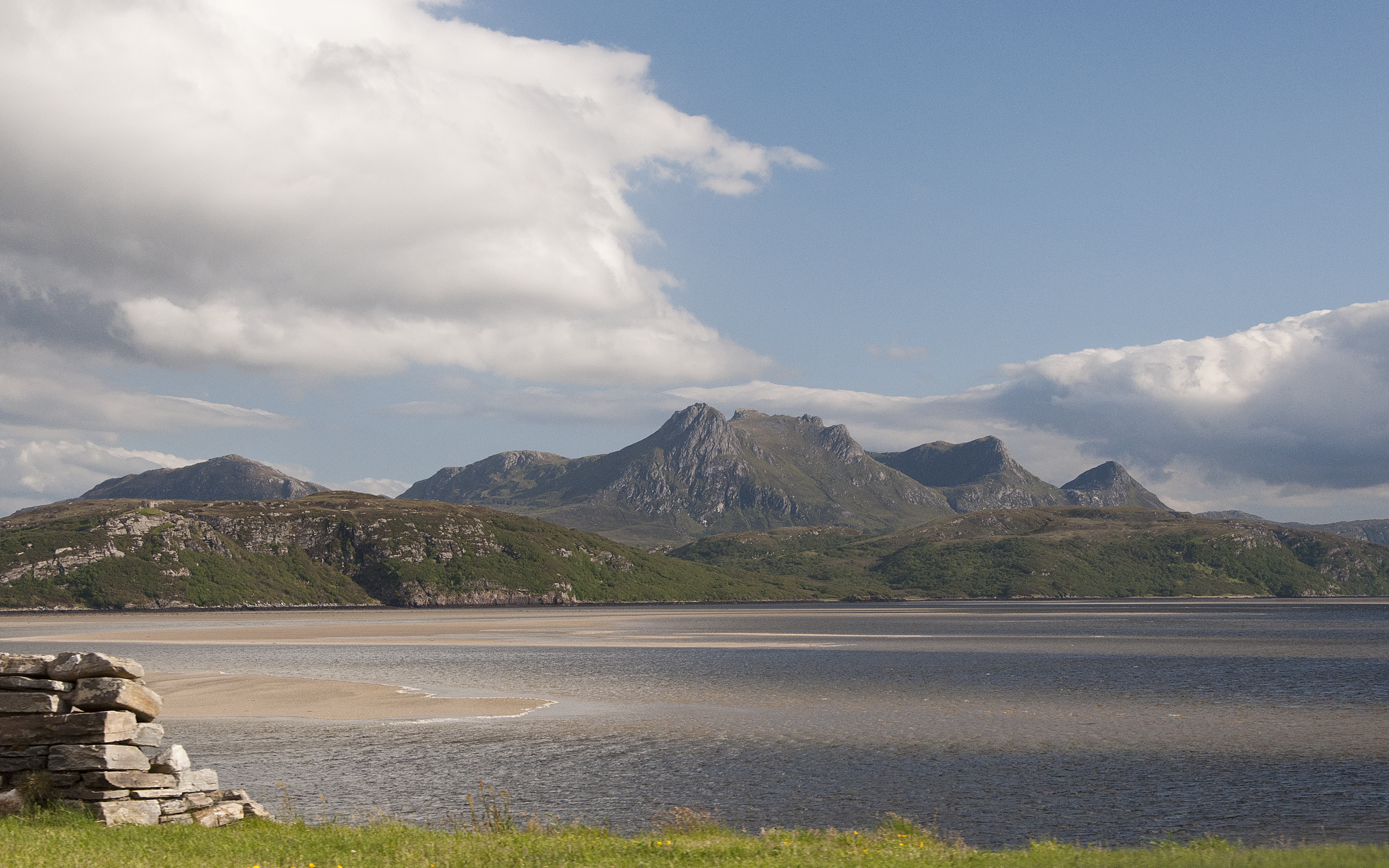 Ben Loyal form the west side of Kyle of Tongue, Sutherland, Scotland